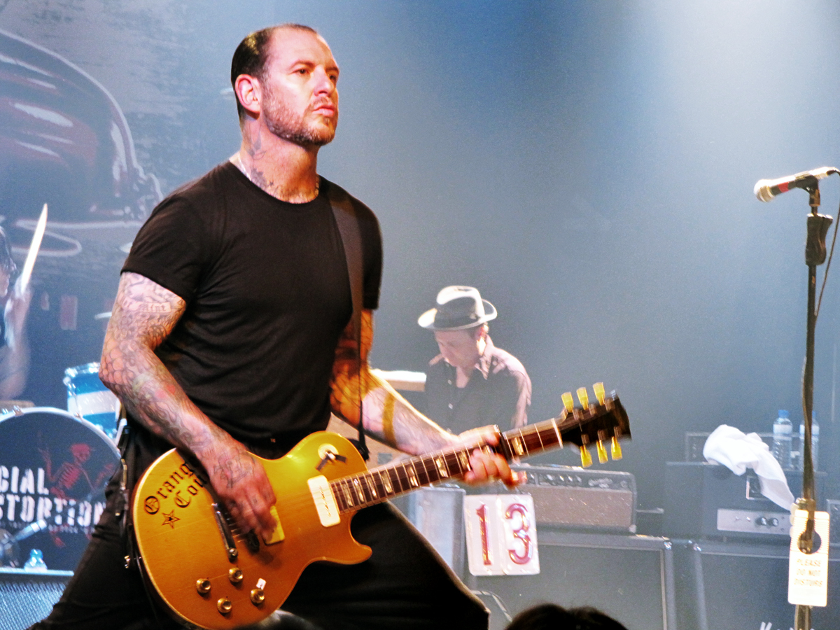 Mike Ness live in Madrid, Spain ... his primary guitar being a 1972 Goldtop Les Paul with Custom Shop Seymour Duncan P90 pickups in both the neck and bridge position, with an Orange County decal and a Mr. Horsepower (Clay Smith Cams logo) across the back of the body. — quoted from Wikipedia article